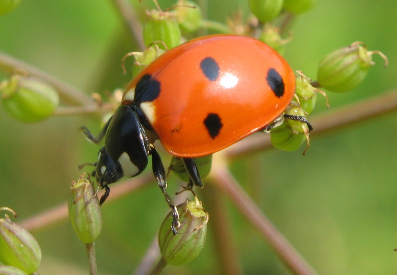 Close-up view of an adult lady beetle.